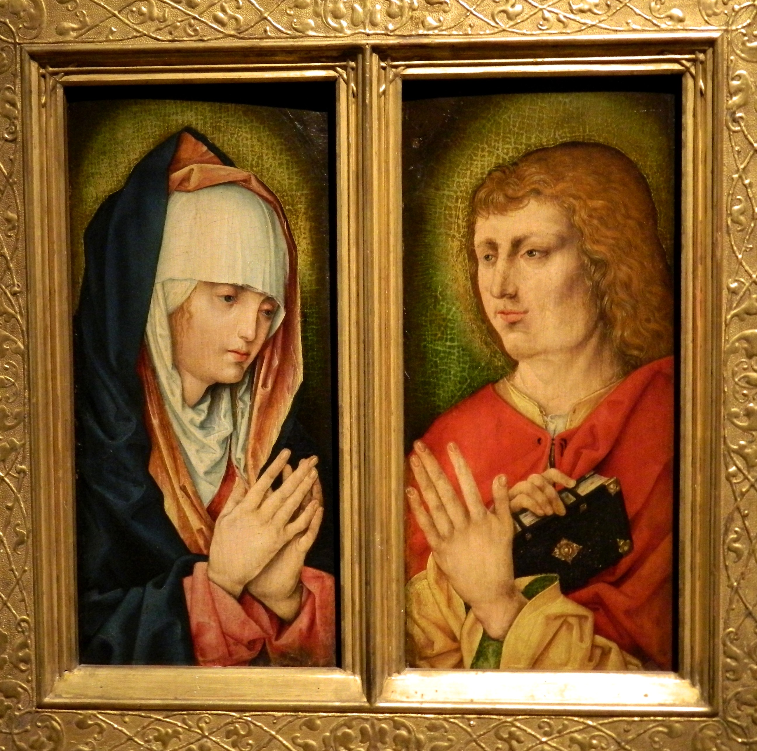 Jacob Elsner - The Virgin Mourning and Saint John the Evangelist (Museum of Fine Arts, Budapest).